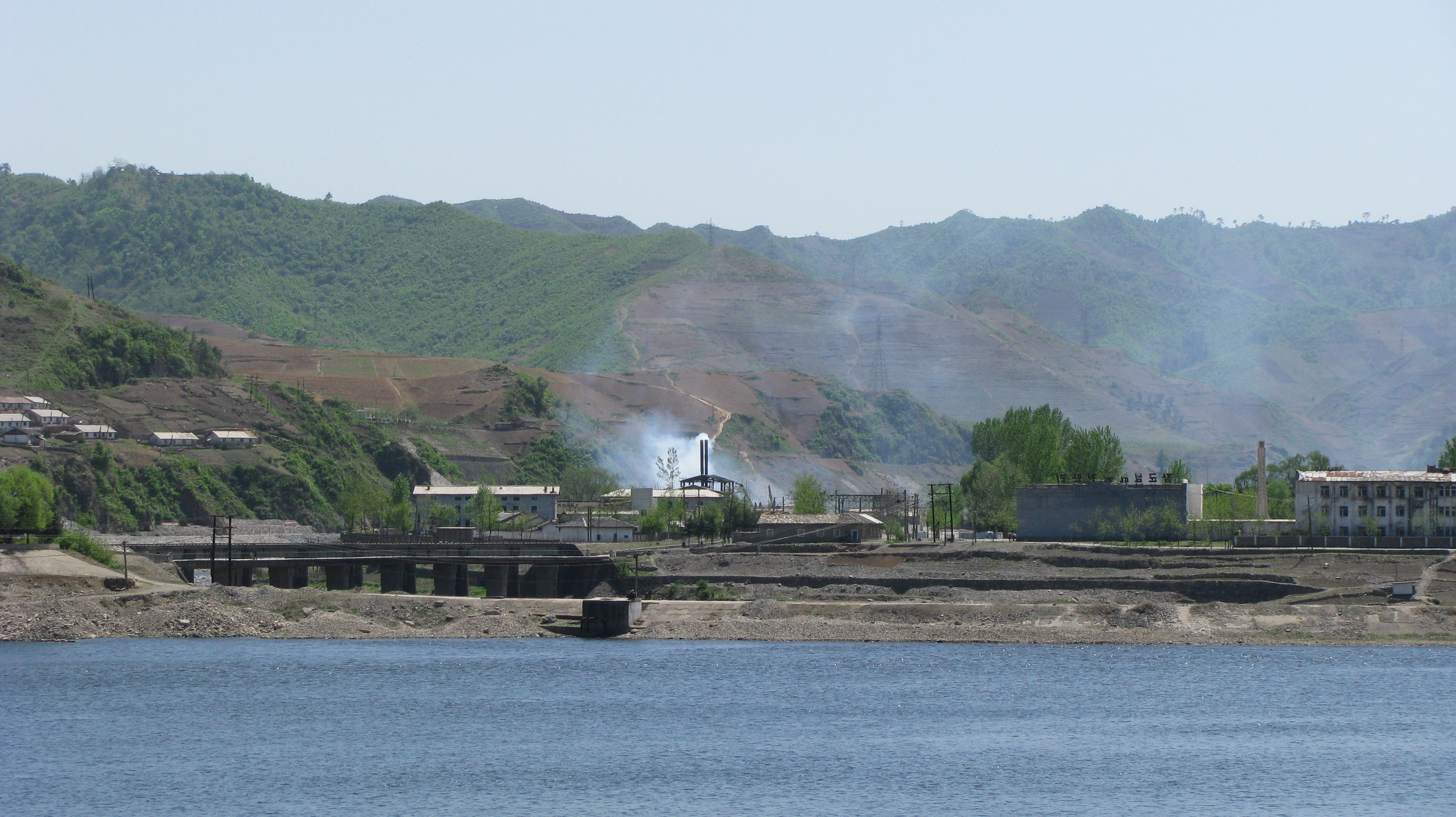 Railway bridge and factory in Supung-dong